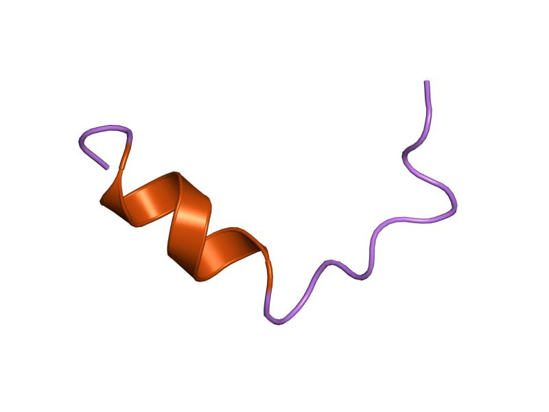 Cartoon representation of the molecular structure of protein registered with 1fac code.